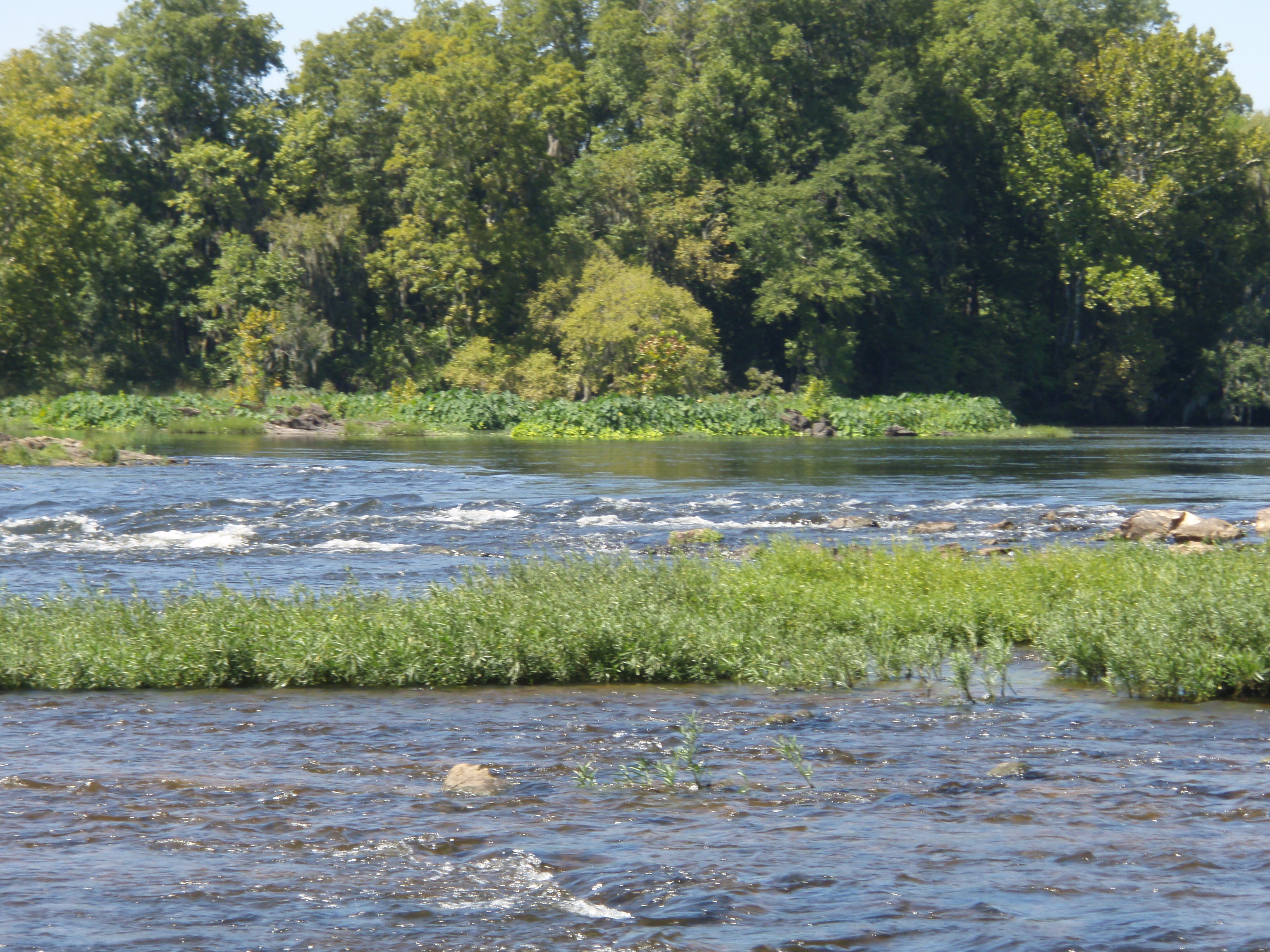 Coosa River Tailwater, near Jordan Dam